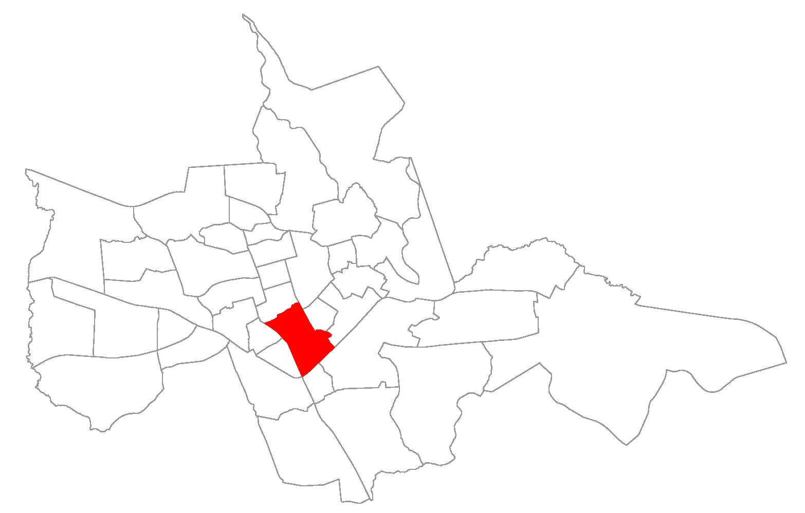 neighborhood/district of Santa Maria, Rio Grande do Sul